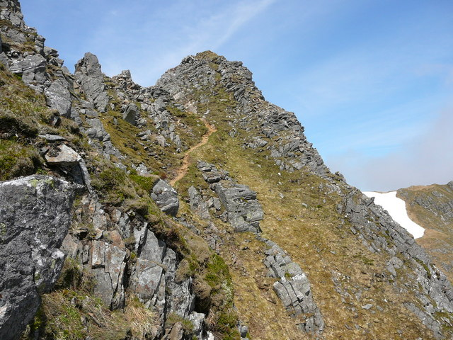 A steep part of the path on Na Guerdain leading up towards Mullach Fraoch-choire